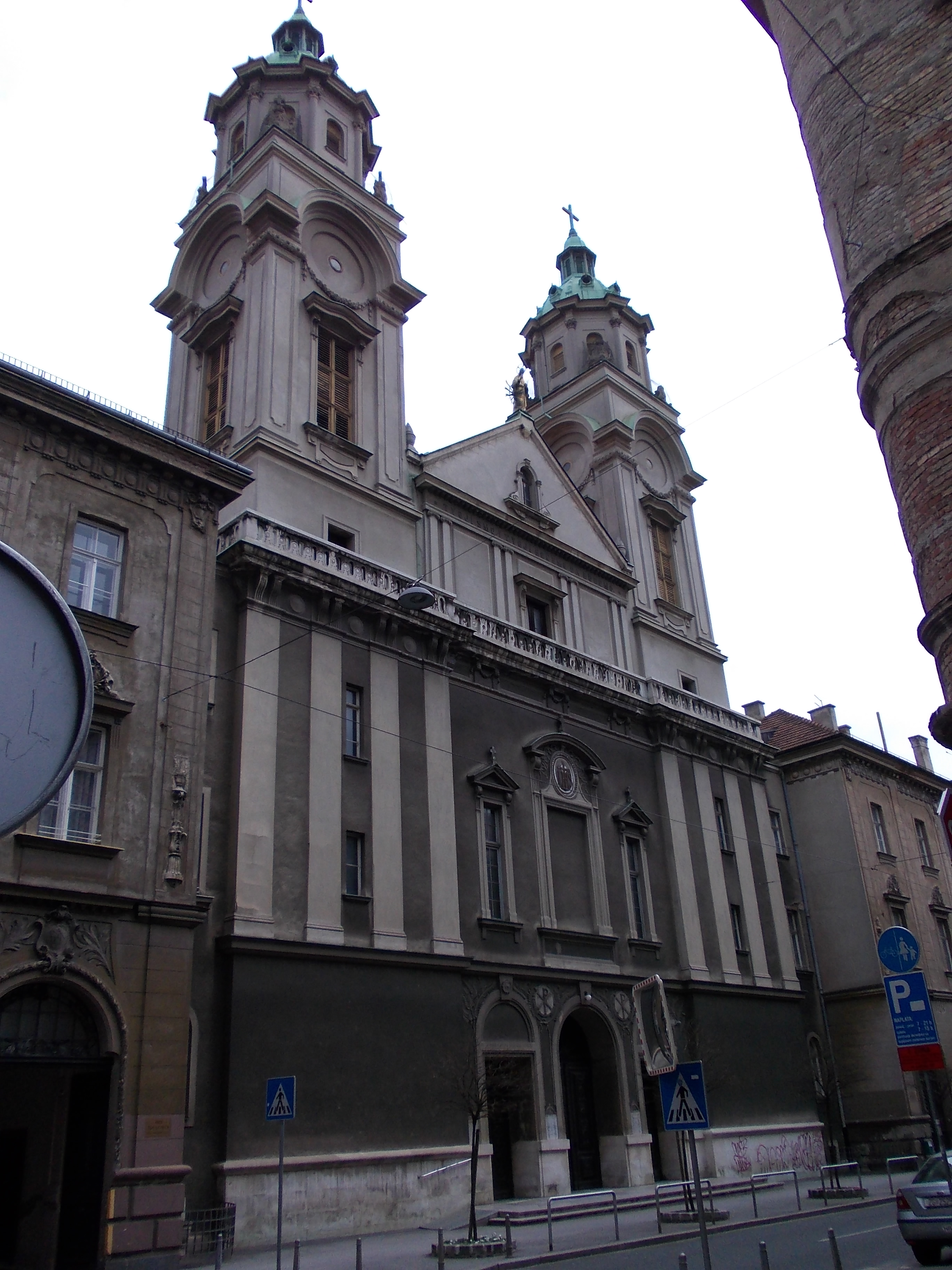 Sacred Heart Basilica, Zagreb